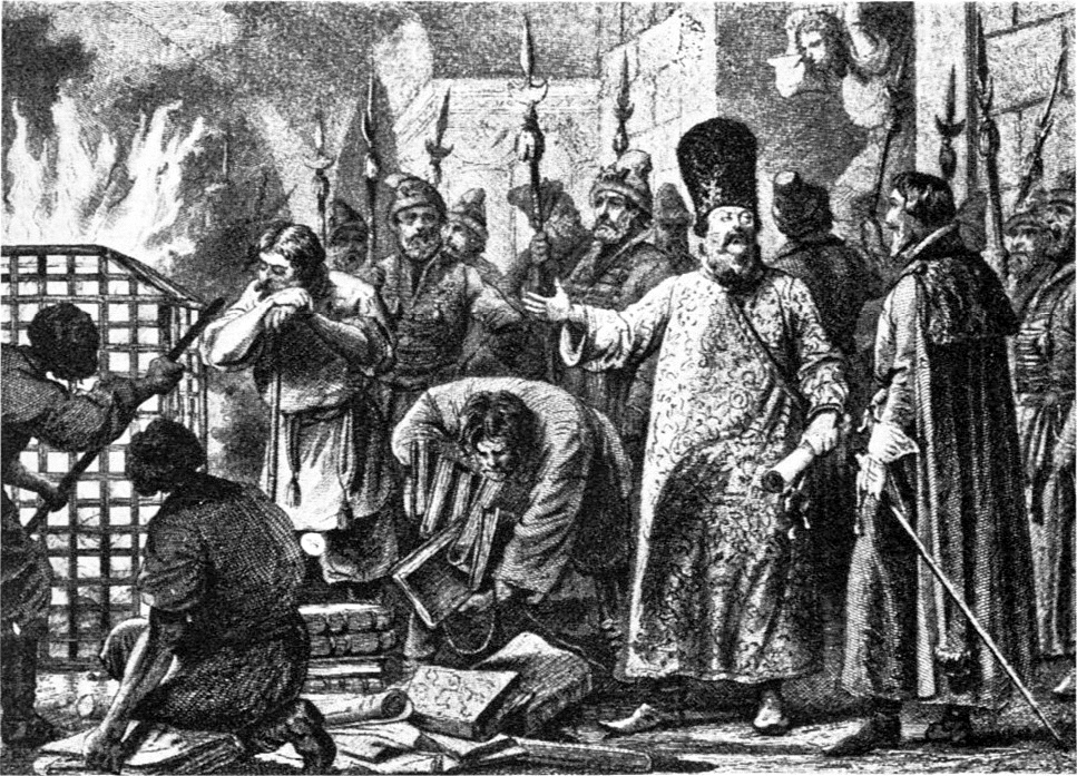 Burning of the razriad books in 1682 under the tsar Fedor Alexeevitch (by Adolf Charlemagne)